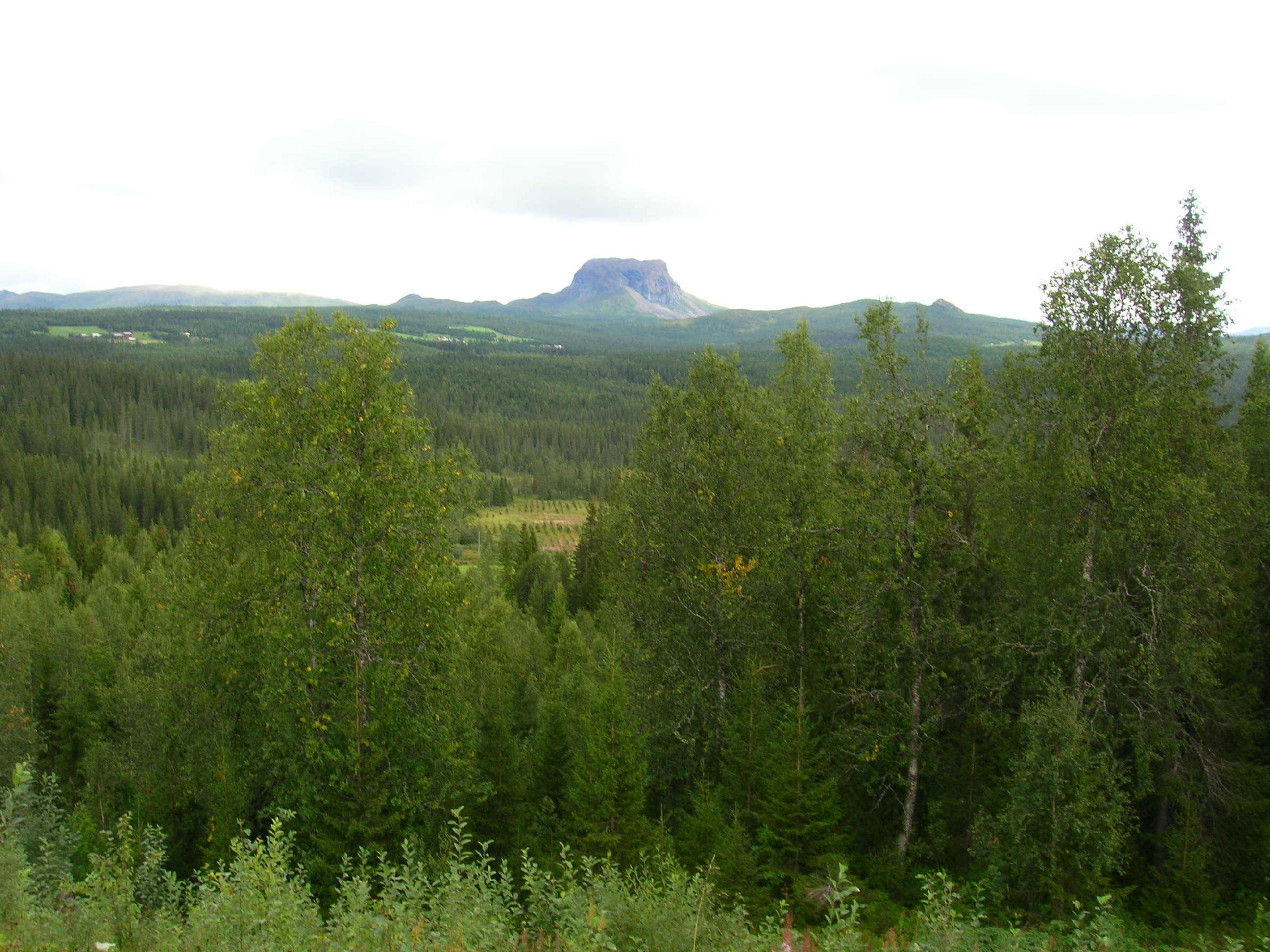 Mount Hatten in Hattfjelldal, Hattfjelldal municipality, county of Nordland, Norway. Photo 28 August 2007 with a Nikon Coolpix 5600 5,1 Megapixel camera.